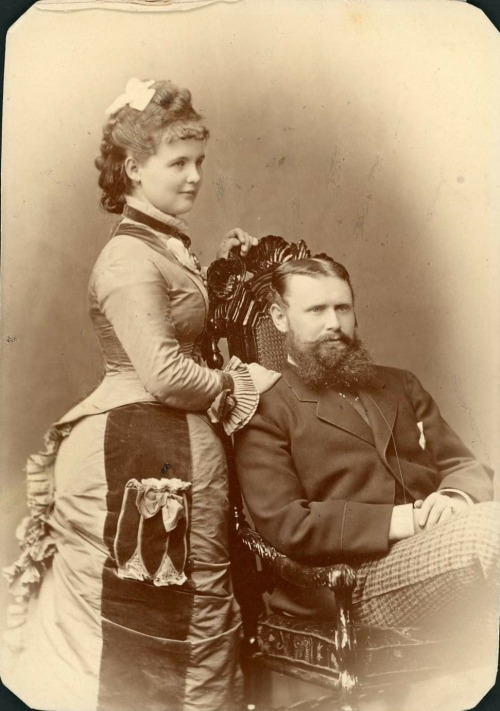 Portrait of Princess Marie of Waldeck and Pyrmont (1857-1882)